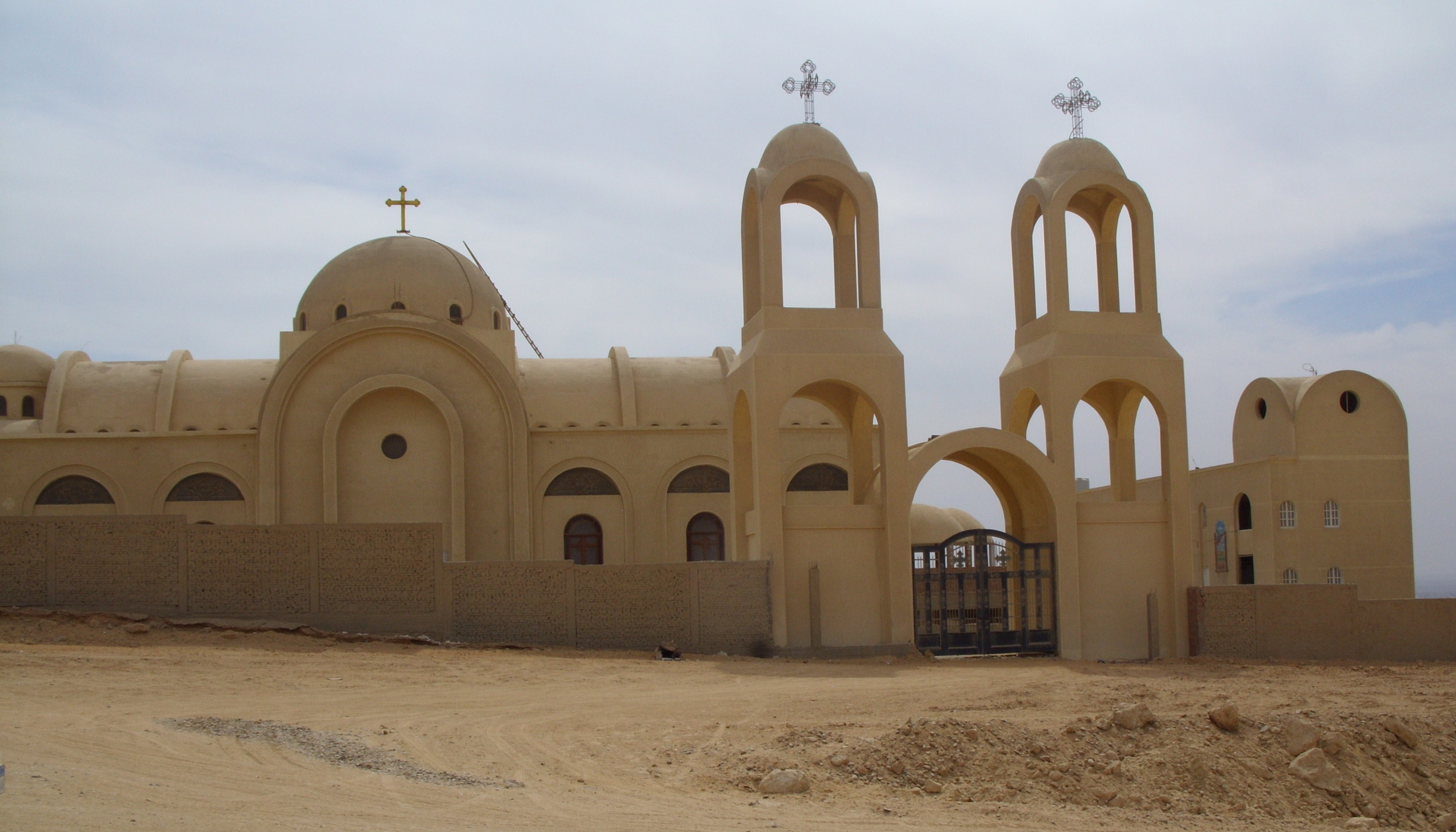 Evangelical Church near 6 October